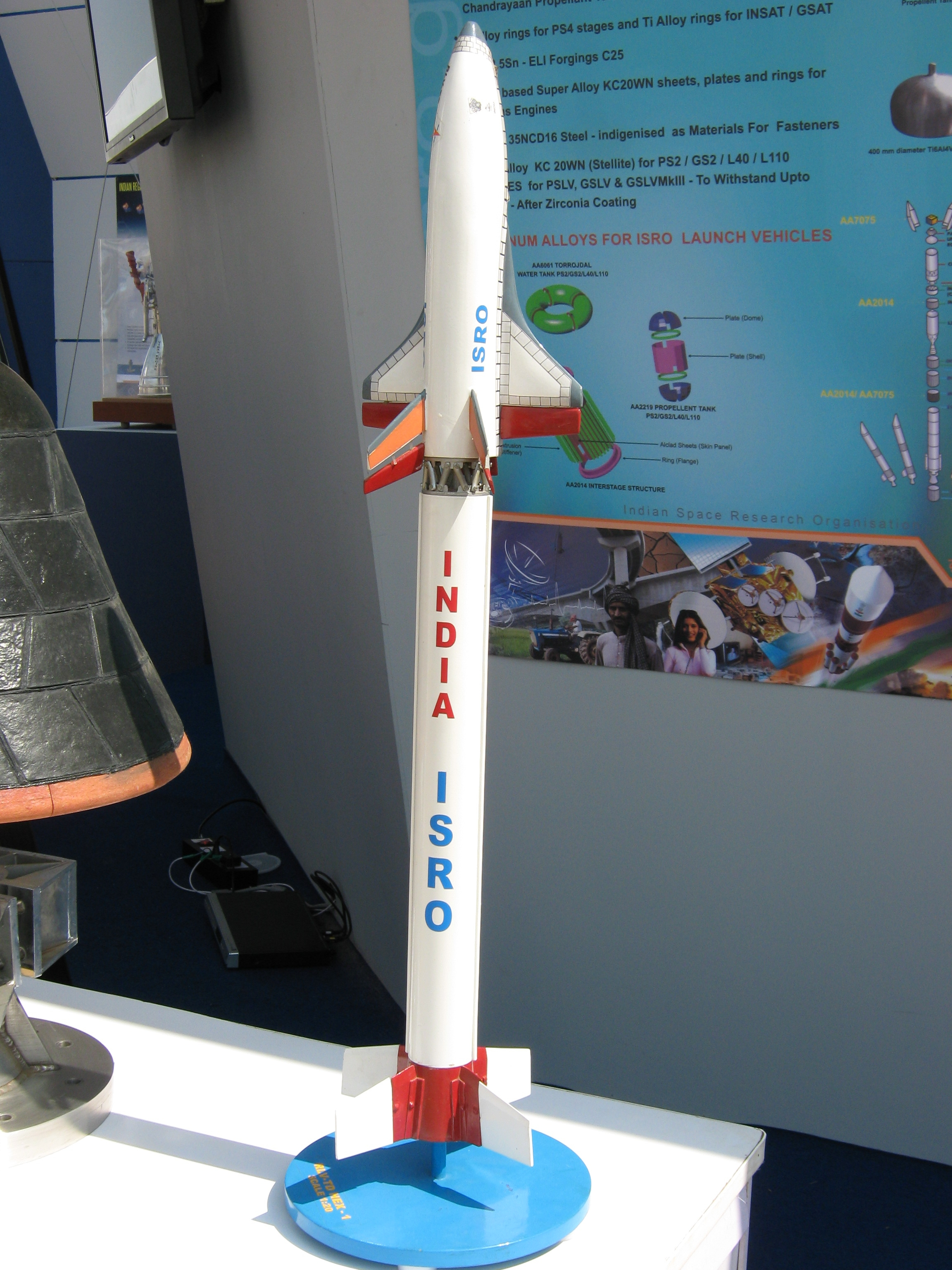 Author - Myself